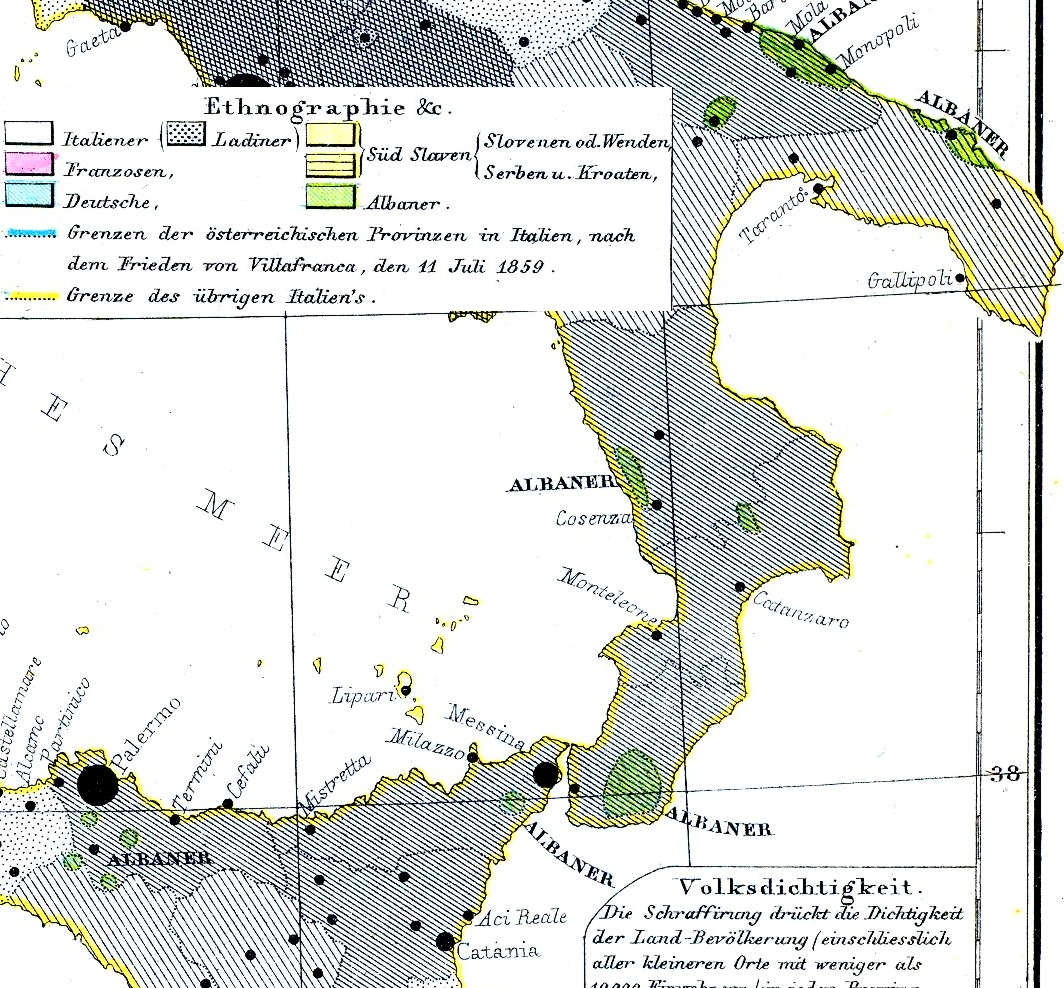 Ethnographisch-statistische Karte von Italien details of albanian in Italy location